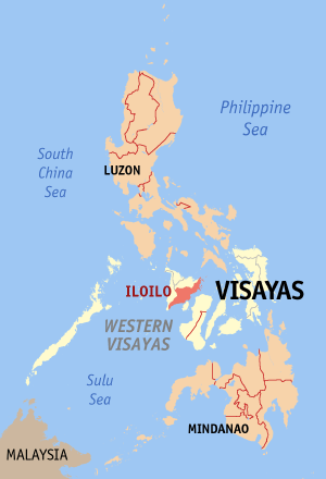 Map of the Philippines showing the location of Iloilo